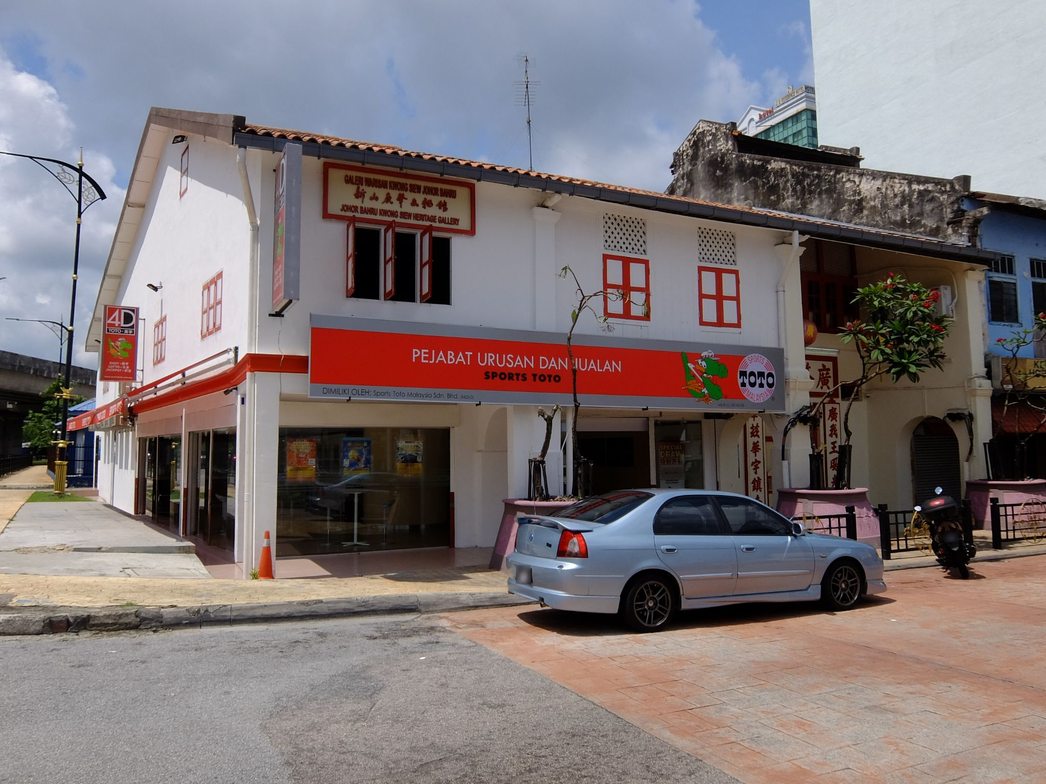 Johor Bahru Kwong Siew Heritage Gallery, Johor Bahru, Johor, Malaysia